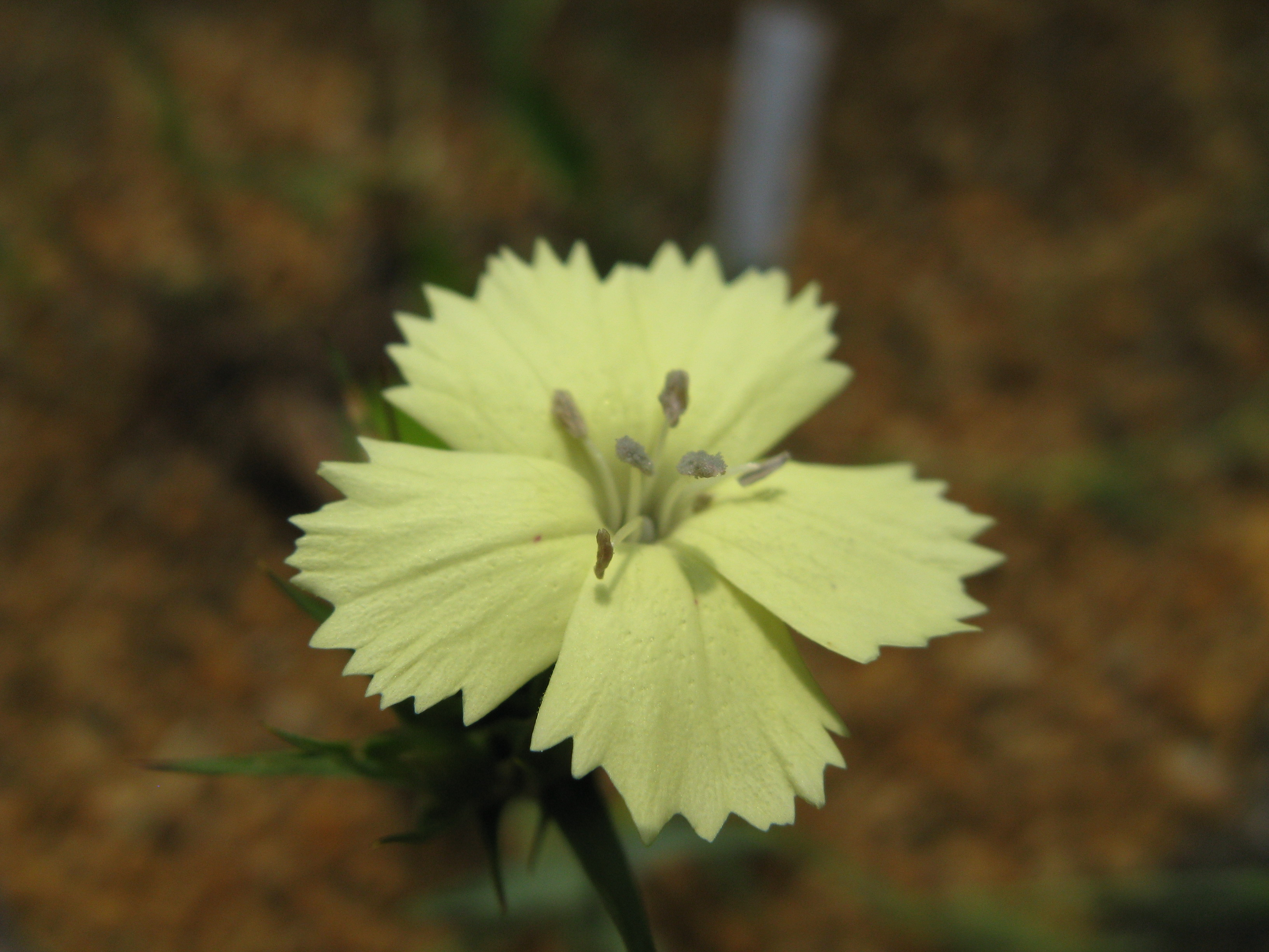 Scientific name Dianthus knappii Place:Osaka,Japan